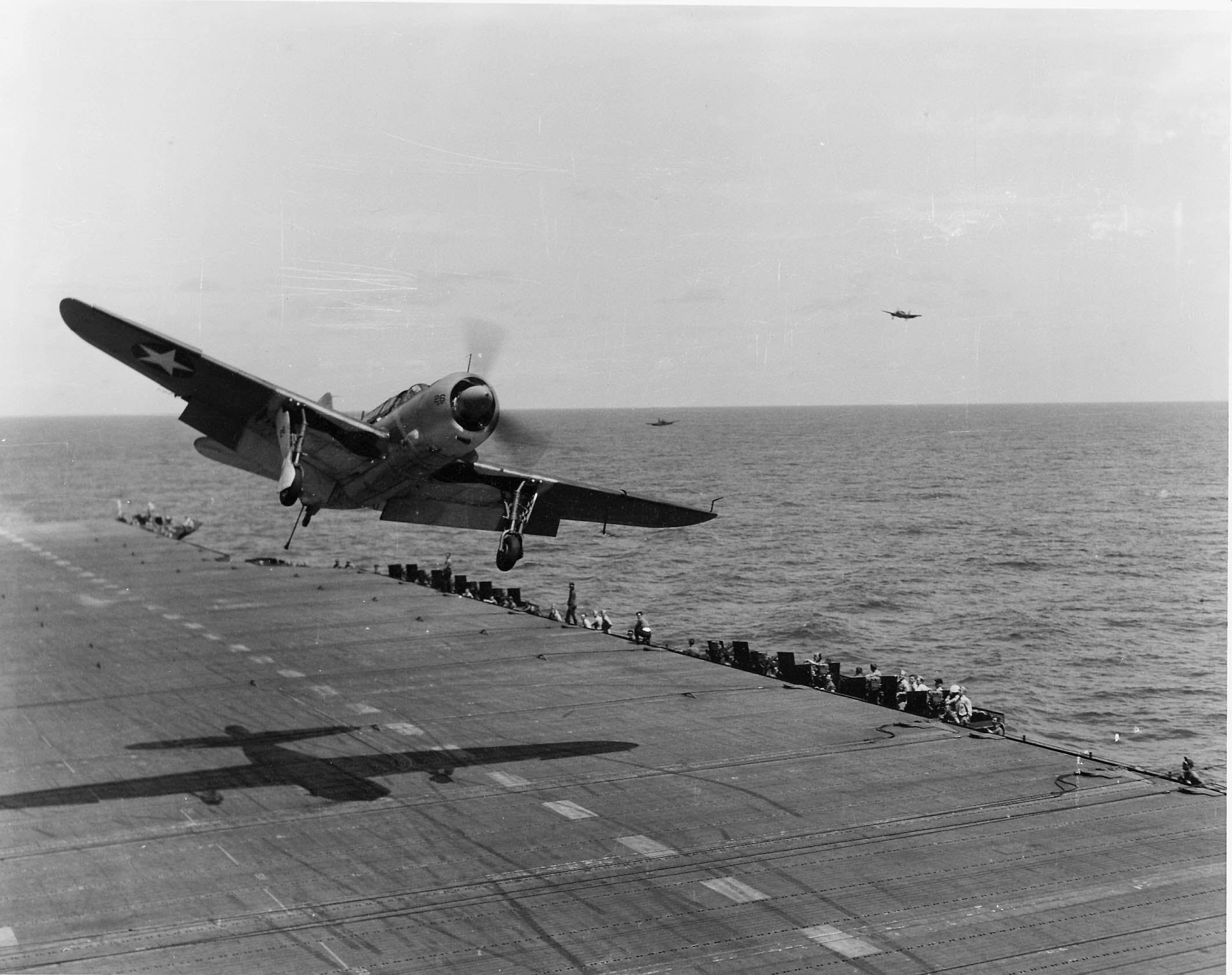 A U.S. Navy Curtiss SB2C-1 Helldiver of Bombing Squadron 17 (VB-17) takes a wave-off during flight operations aboard the aircraft carrier USS Bunker Hill (CV-17) in the Caribbean, in 1943. The first squadron to recive the Helldiver, VB-17 experienced some growing pains with the type, losing numerous aircraft while operating from shore and aboard Bunker Hill during the carrier's shakedown cruise. While flying from Bunker Hill on 11 November 1943, the squadron introduced the aircraft to combat during a raid on Rabaul, and continued flying missions from the carrier until March 1944. After reforming, VB-17 completed a second combat cruise, this time aboard USS Hornet (CV-12) during the period February-June 1945. Among their combat missions were attacks against Tokyo and the Japanese battleship Yamato.